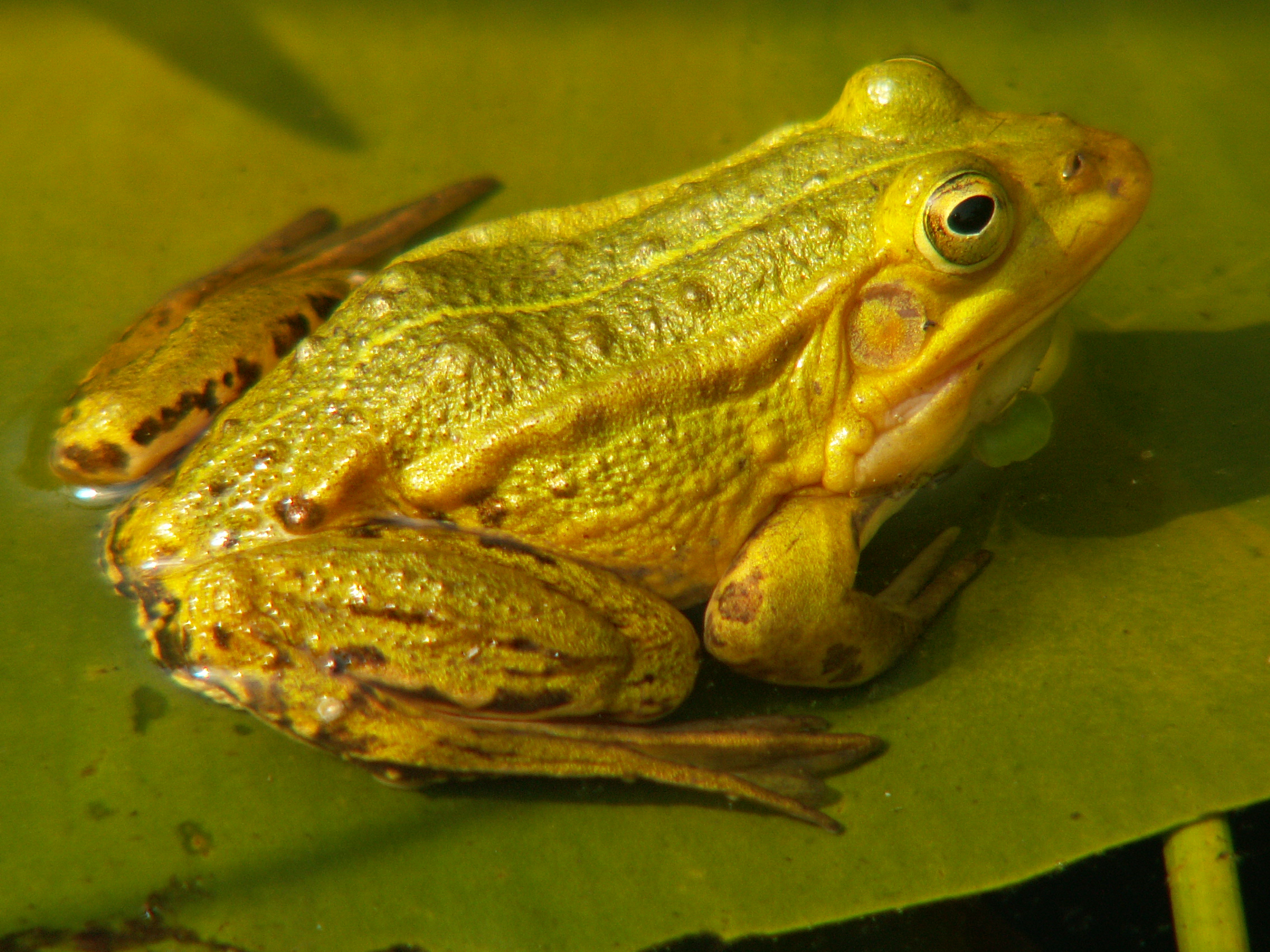 Rana lessonae (Pelophylax lessonae) Wageningen The Netherlands